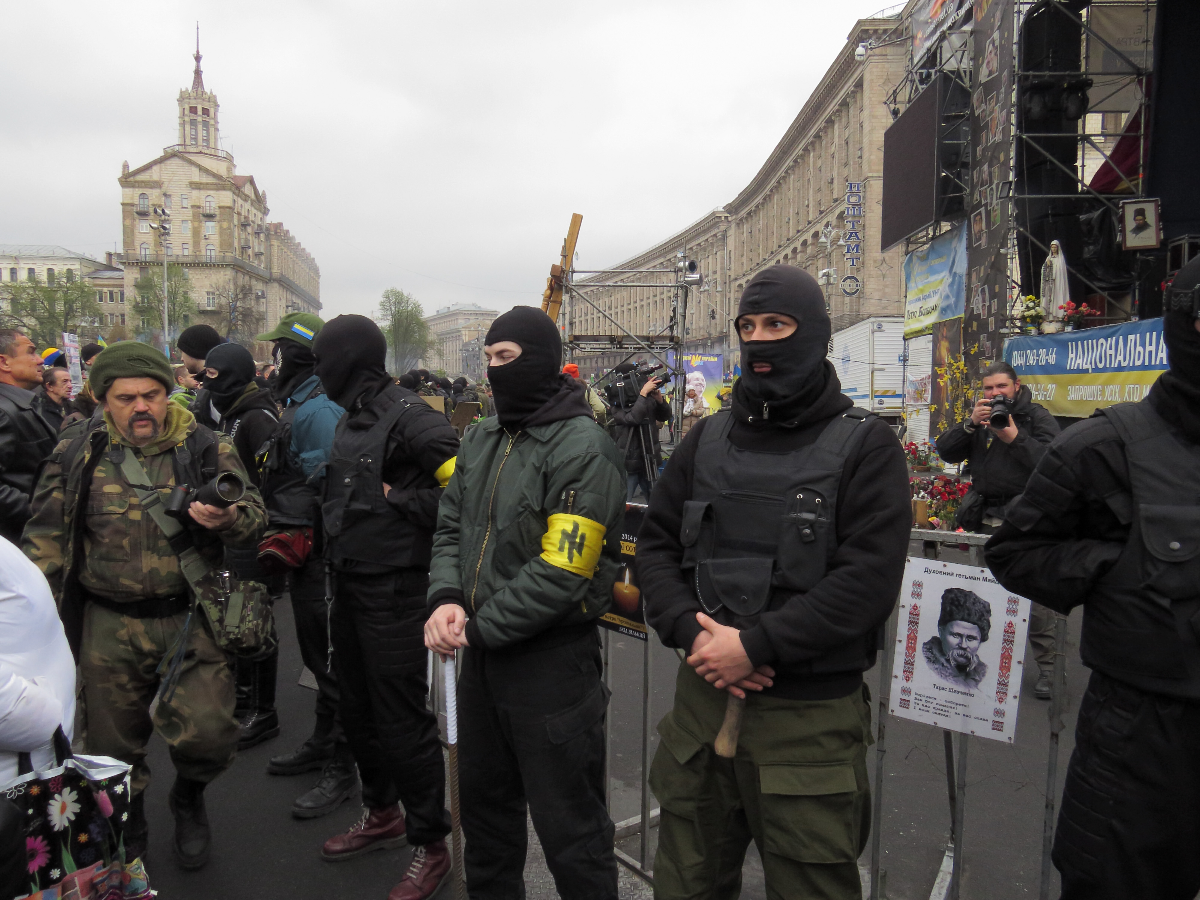 Kiev, meeting at the Maidan main stage initialized by Right Sector activists. Right Sector's secutity at the stage